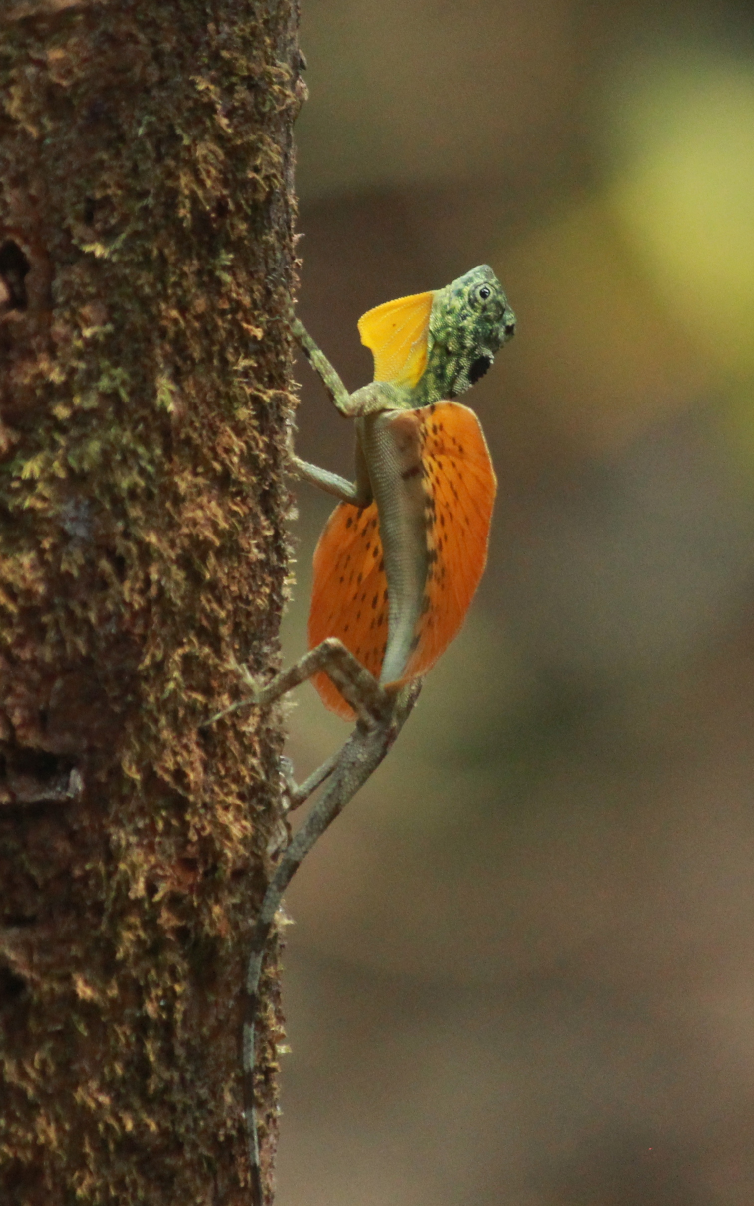 Sulawesi Lined Gliding Lizard (Draco spilonotus) at Bogani Nani Wartabone National Park, North Sulawesi